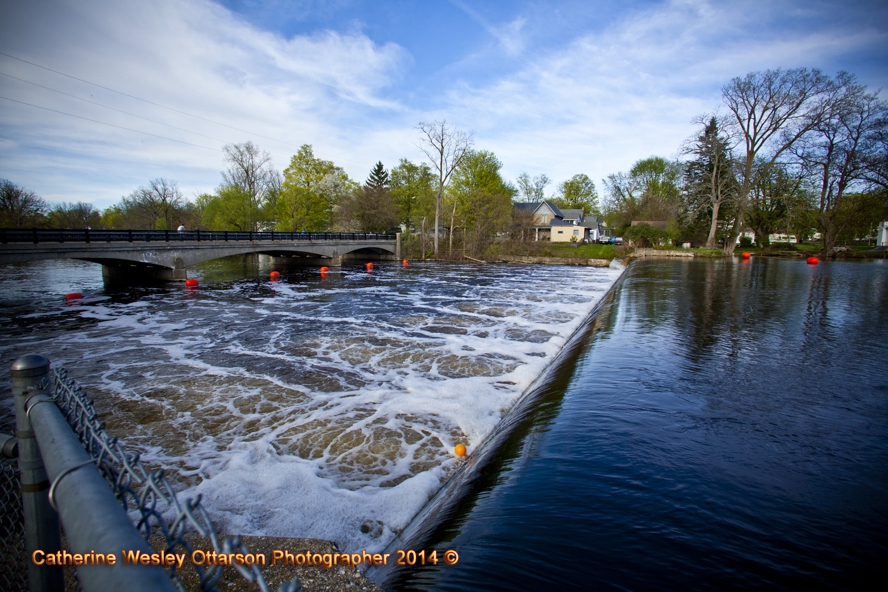 Island City Historic District, N. State Street Dam on the Grand River in Eaton Rapids, Michigan